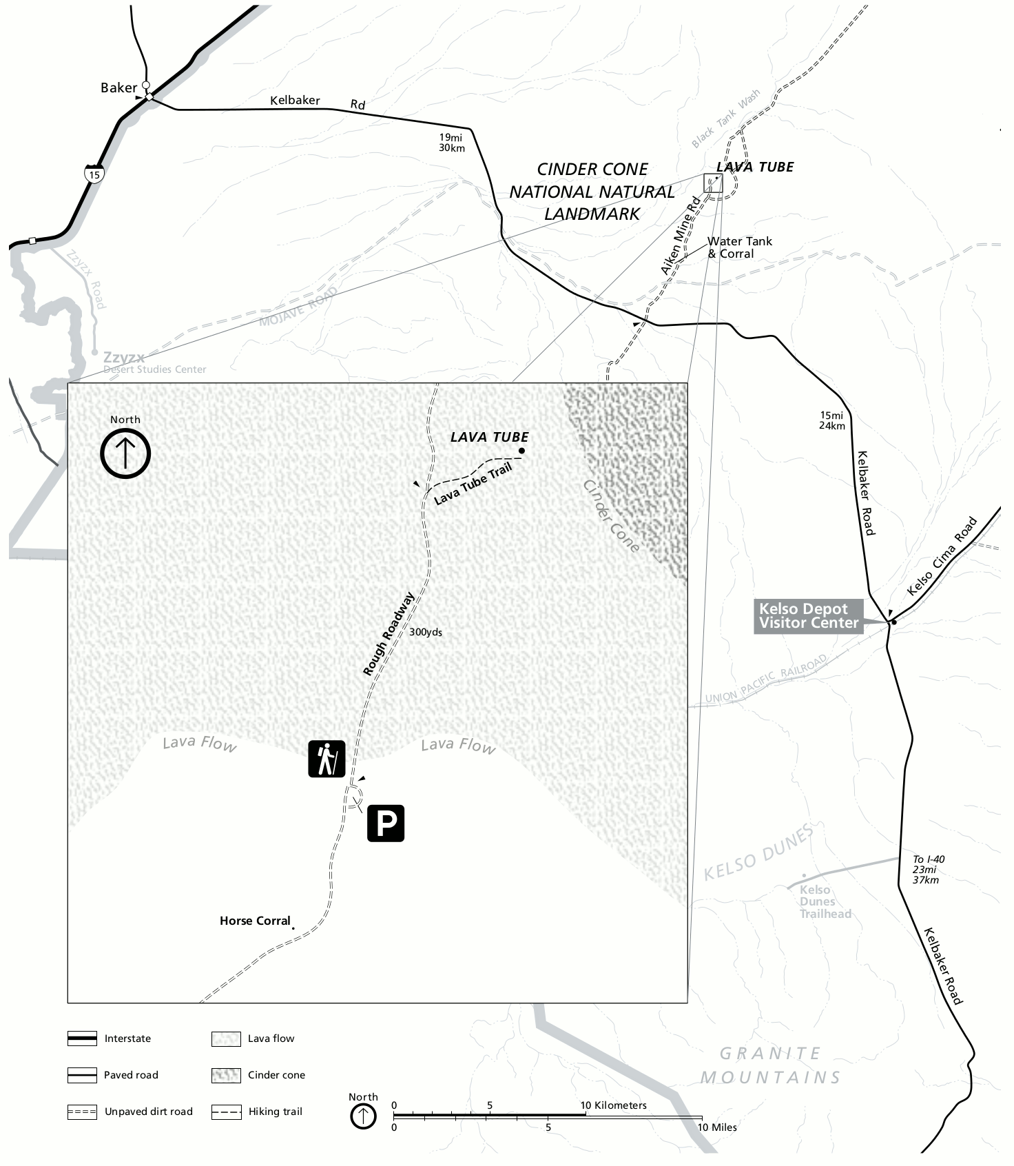 This Lava Tube trail map shows the route into the lava tube, located at the end of a 5-mile unpaved road a bit north of the Kelso Depot Visitor Center.